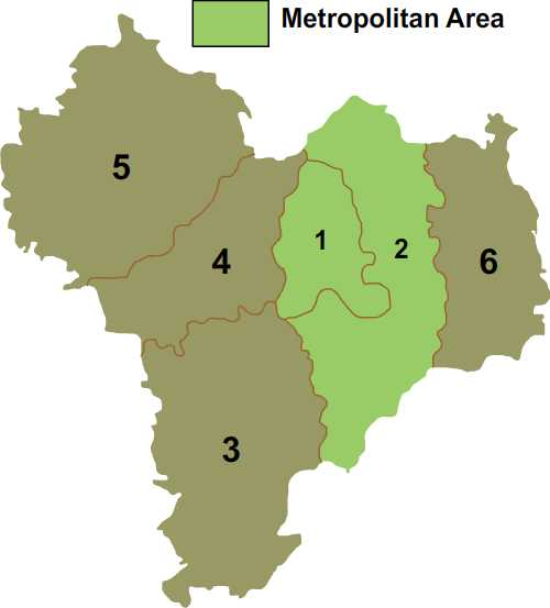 county-level divisions of Quzhou in Zhejiang province, China